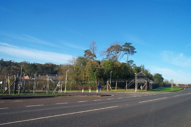 Norton Manor Camp. The home of 40 Commando Royal Marines. The picture shows the main entrance to the camp off the A358 with the timber lookout tower just to the right.